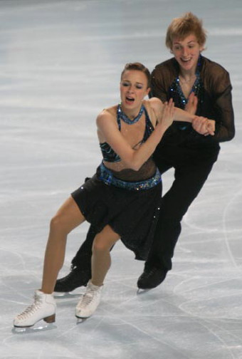 Joanna BUDNER / Jan MOSCICKI at the 2008 TEB.